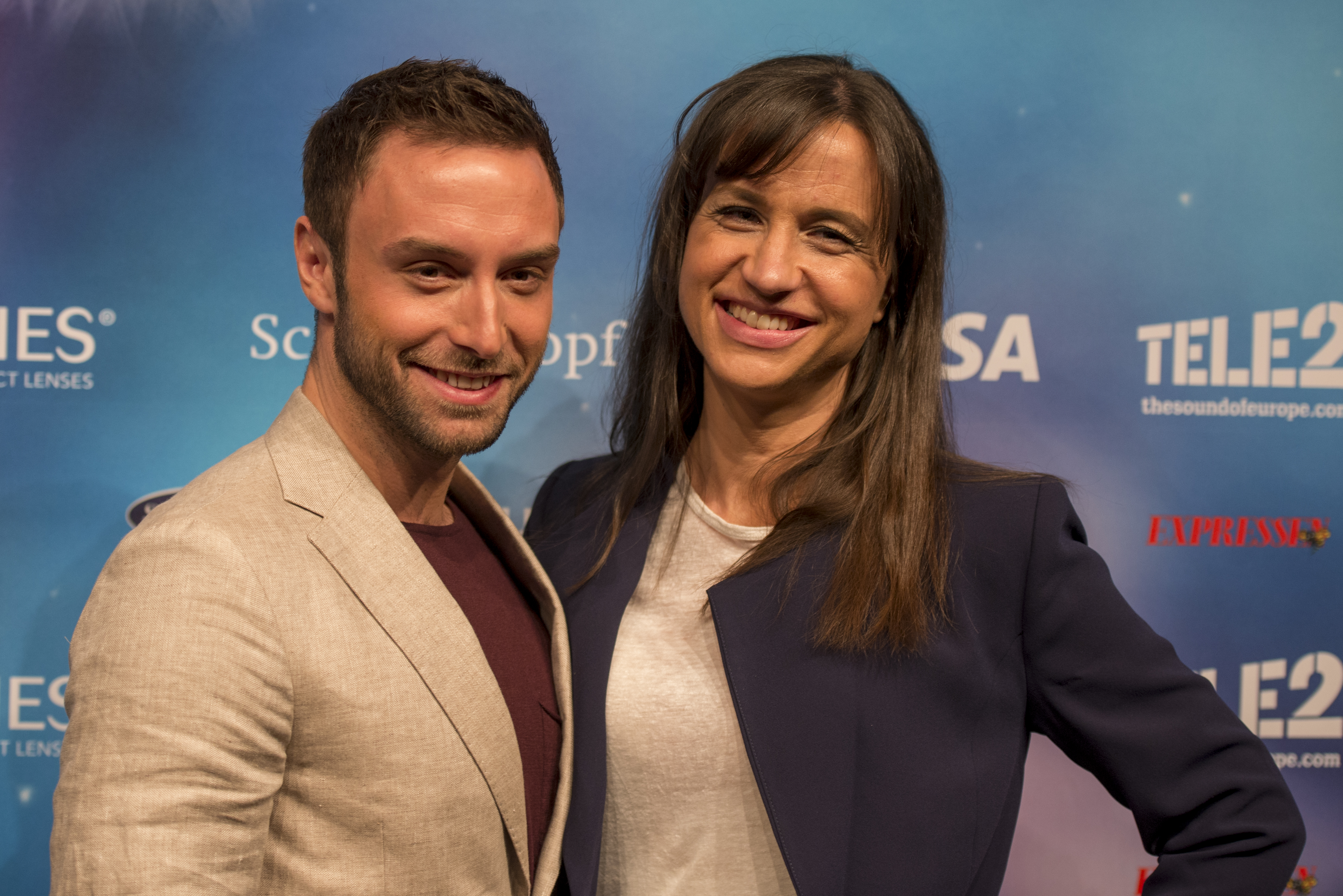 Måns Zelmerlöw & Petra Mede at a press conference during the Eurovision Song Contest 2016 in Stockholm. (Help translate this text)